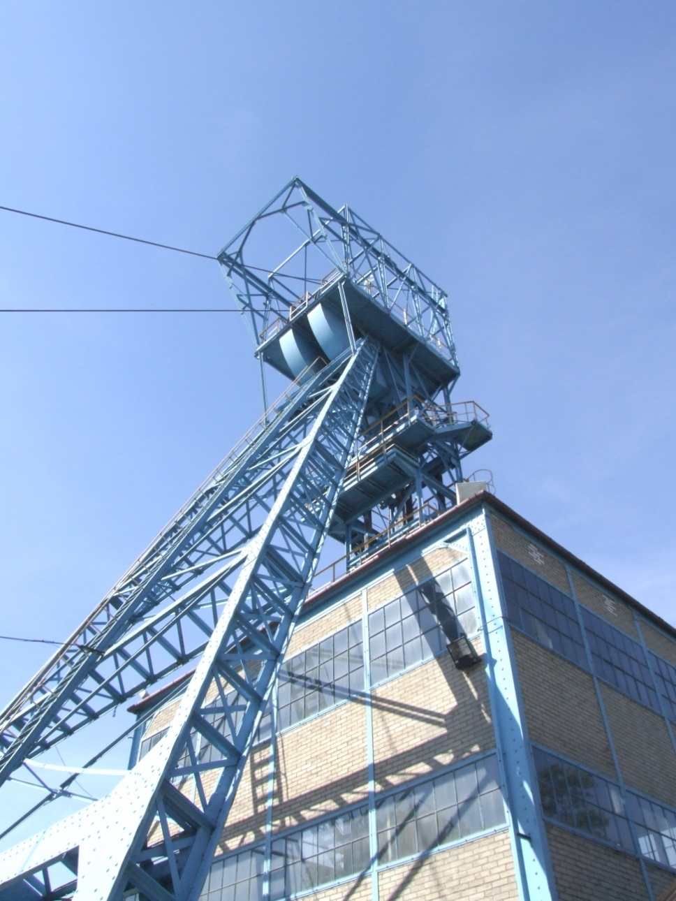 The shaft of subterranean skansen Guido in Zabrze